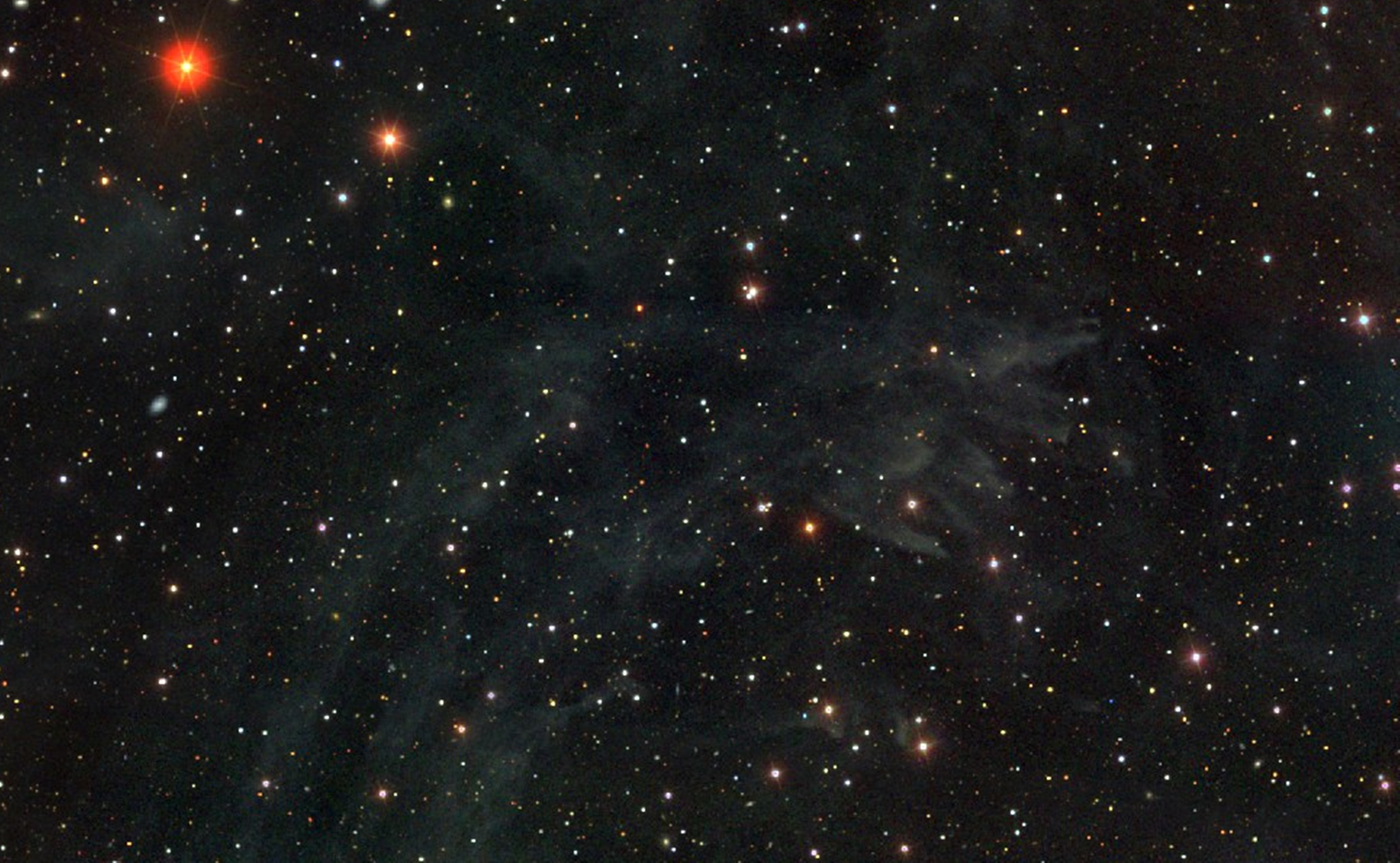 Center: RA 346.9625 Dec 19.9054 SDSS r9